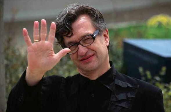 Wenders Wim in Cannes in 2002. My own picture. Created by Rita Molnár 2002.